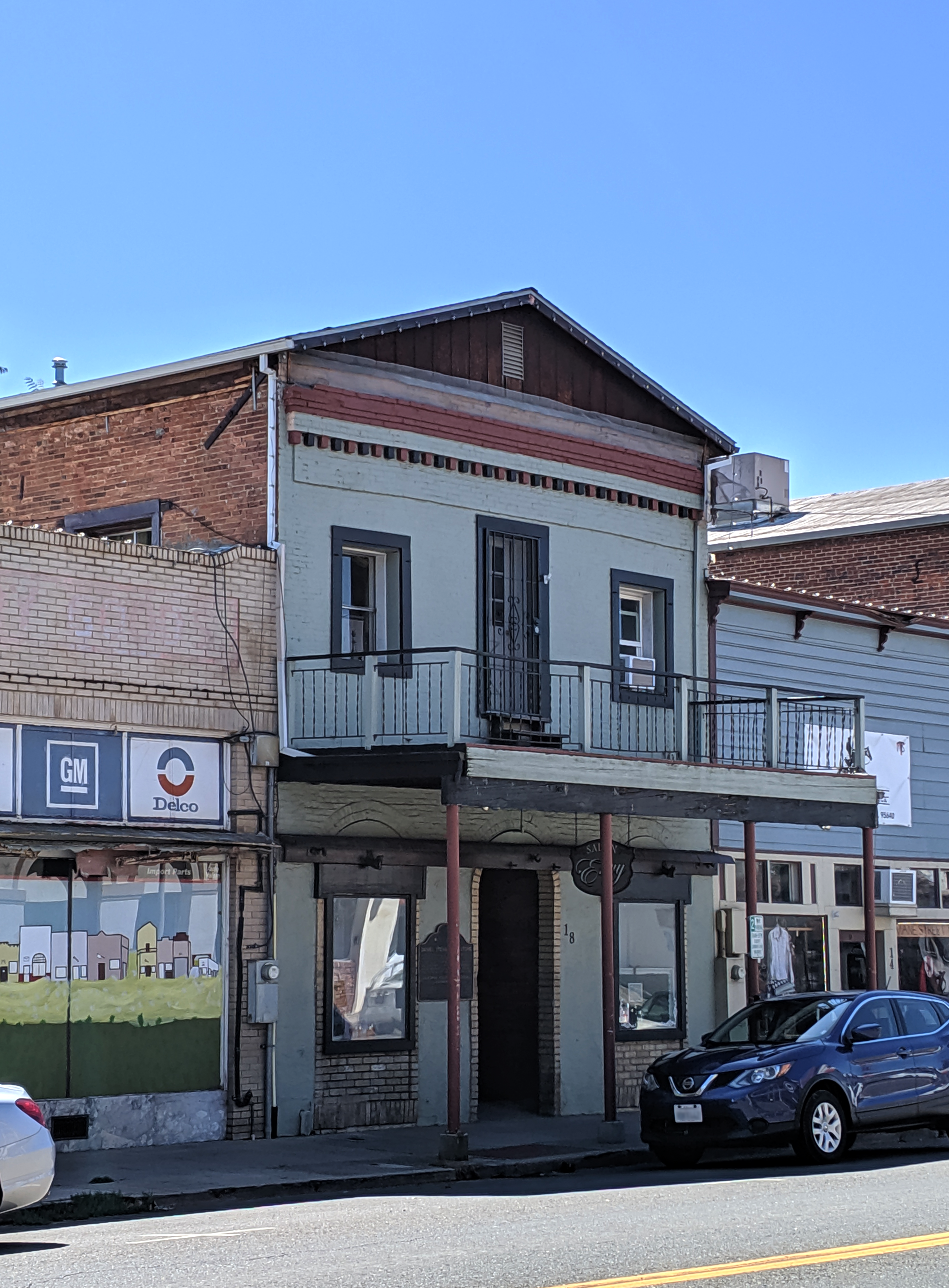 Daniel Stewart Co. Store --- The plaque affixed to the building states that the building was built by Daniel Stewart in 1856 and that it represents the first brick building in the Ione Valley. Plaque was placed March 7, 1964